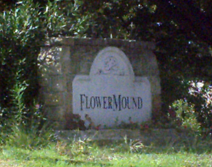 Entrance sign for Flower Mound, Texas.